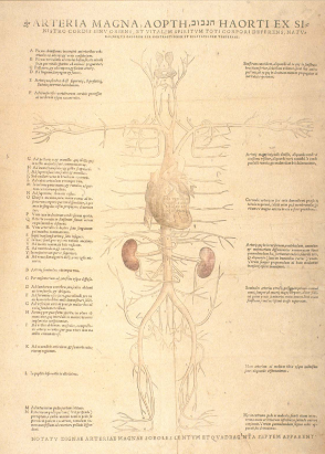 Versalius - 6 anatomy pieces